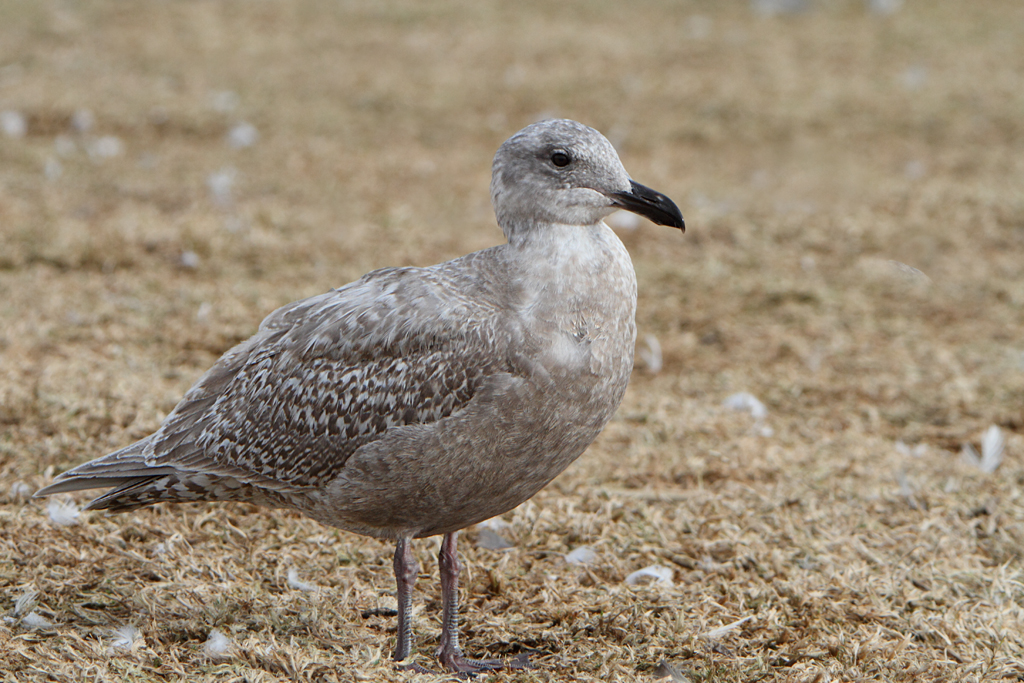 A first cycle Larus glaucescens in it's pre alternate 1 molt. Observed in Oceano, California